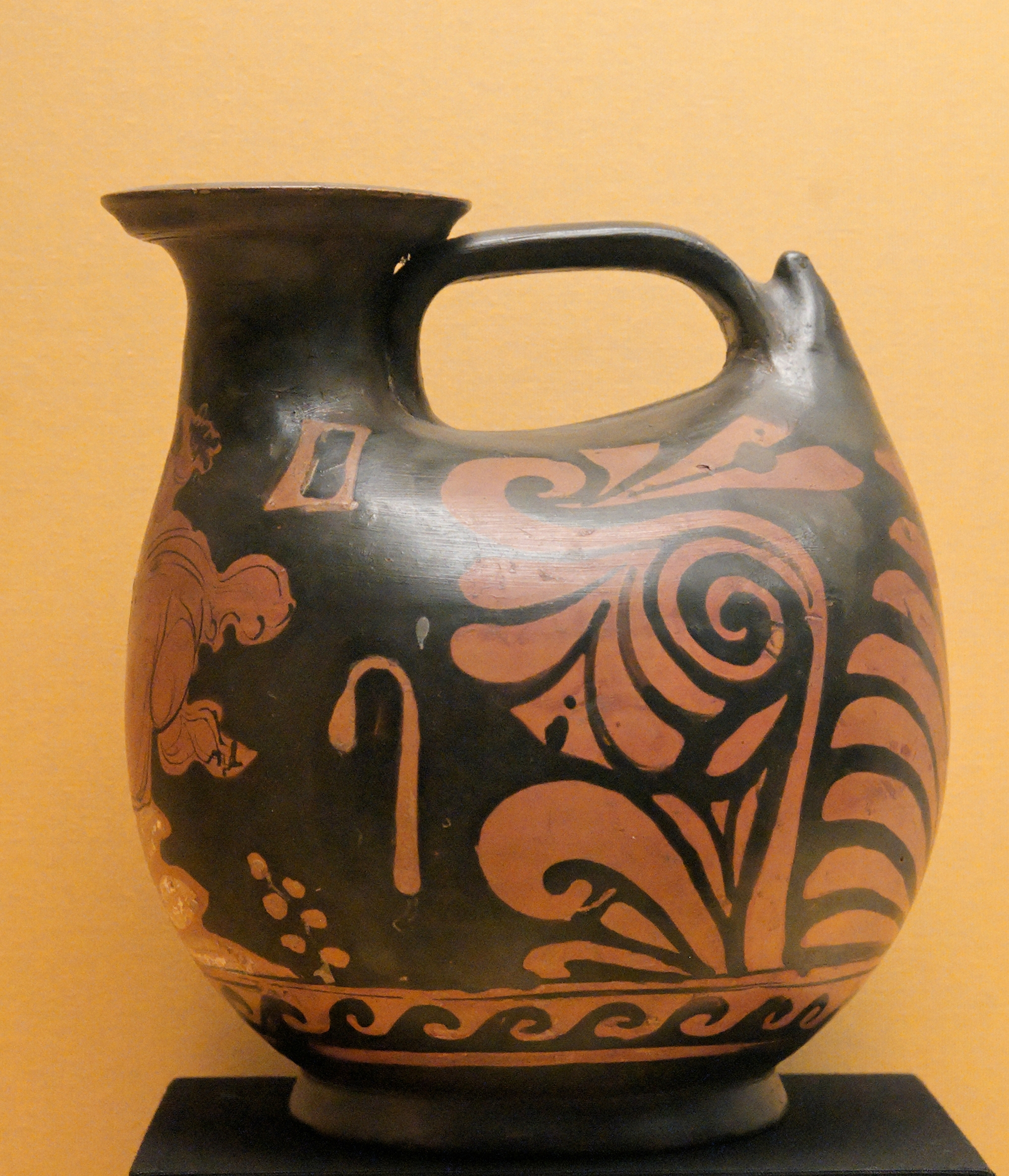 Apulian red-figure askos.